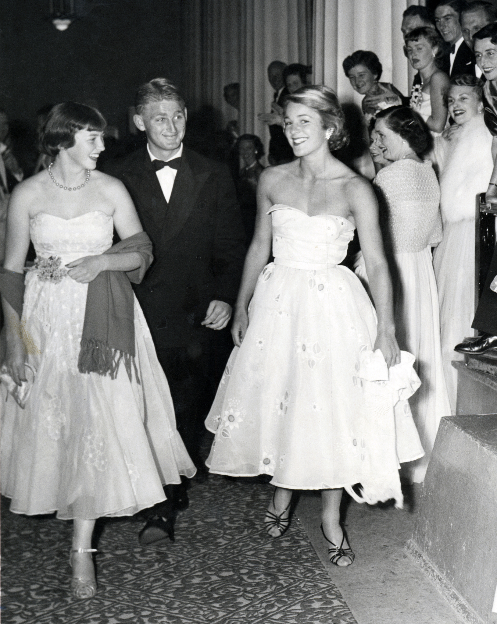 Australian tennis player Lew Hoad (center) with his girlfriend Jennifer Staley (right) at the Davis Cup Ball at the Palaise de Dance, St. Kilda.